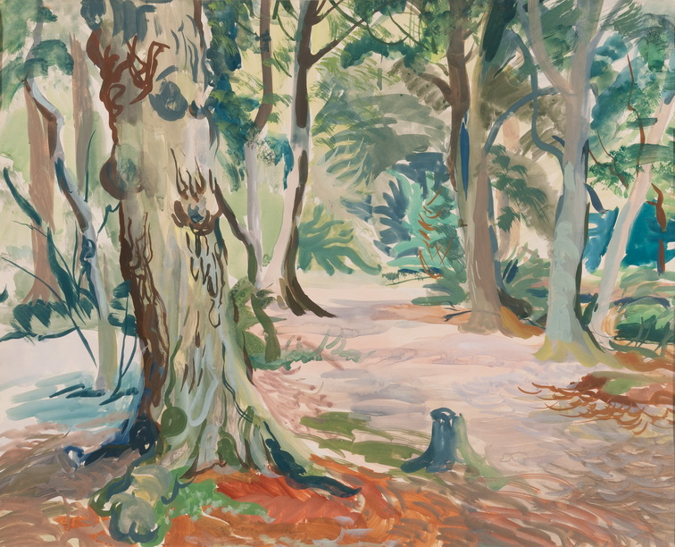 New Forest VII. Gouache.